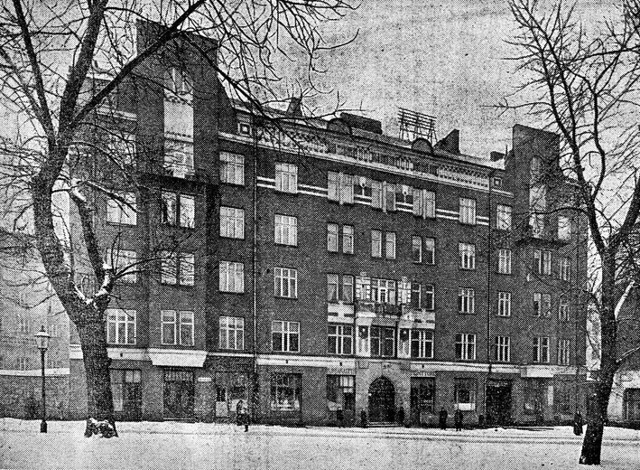 Building of the "Työmies" newspaper in Helsinki, Finland. Architects Birger Brunila and W. G. Palmqvist. Completed in 1908 and demolished in 1979.